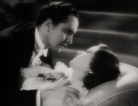 Fredrich March AND Evelyn Venable in Death Takes a Holiday (1934) - trailer (cropped screenshot)